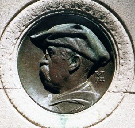 J. William White, 1922, bas-relief bust by R. Tait McKenzie, Rittenhouse Square, Philadelphia, PA Surgeon, Teacher, Author, Athlete, (1850-1916) Leader in beautifying Rittenhouse Square